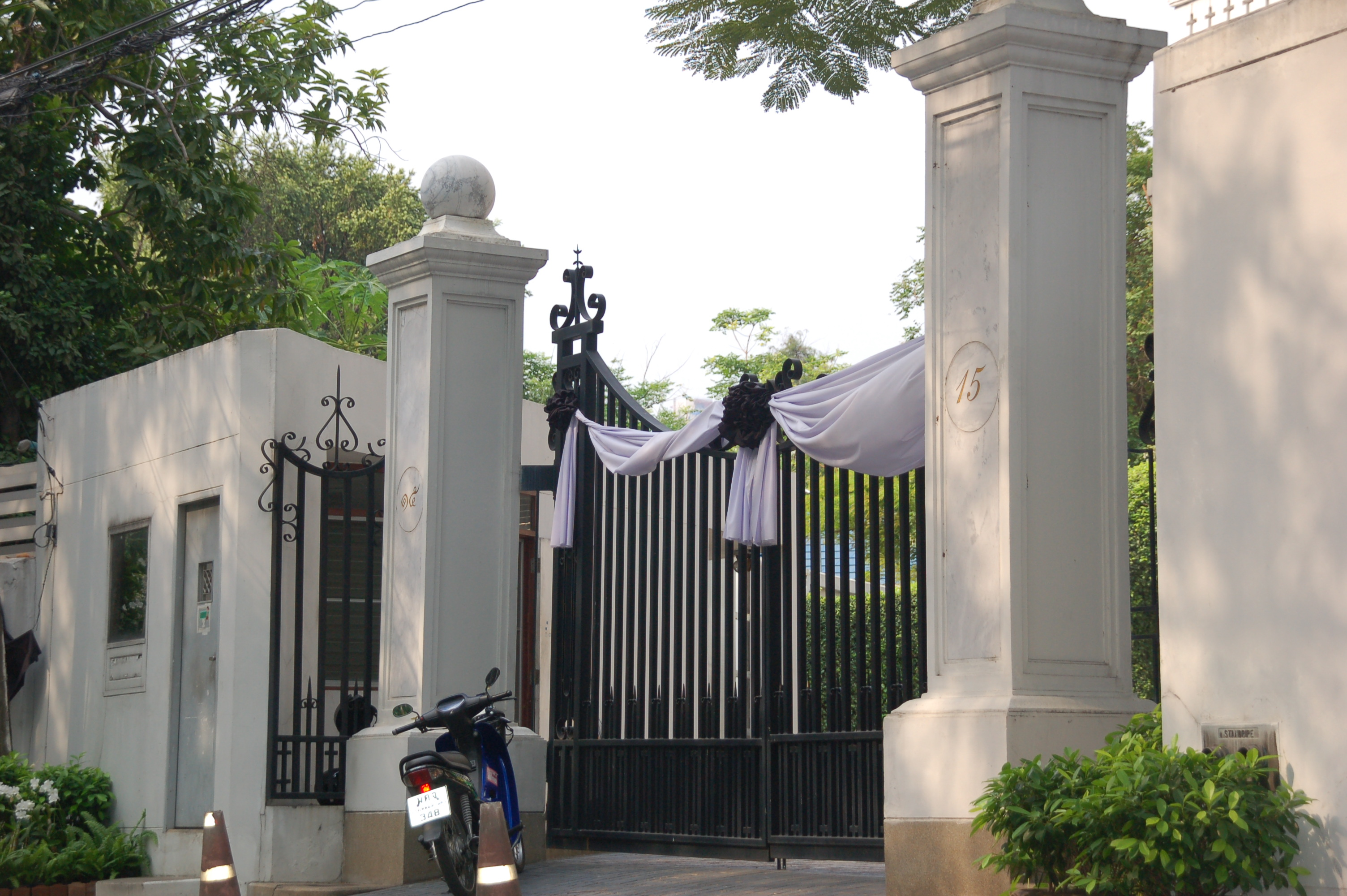 Front gate of Villa Vadhana, Le Dix palace. The building is at 15 Soi Ngam Du Phlee, Sikhumvit rd., Bangkok, Thailand. Constructed in 1997.